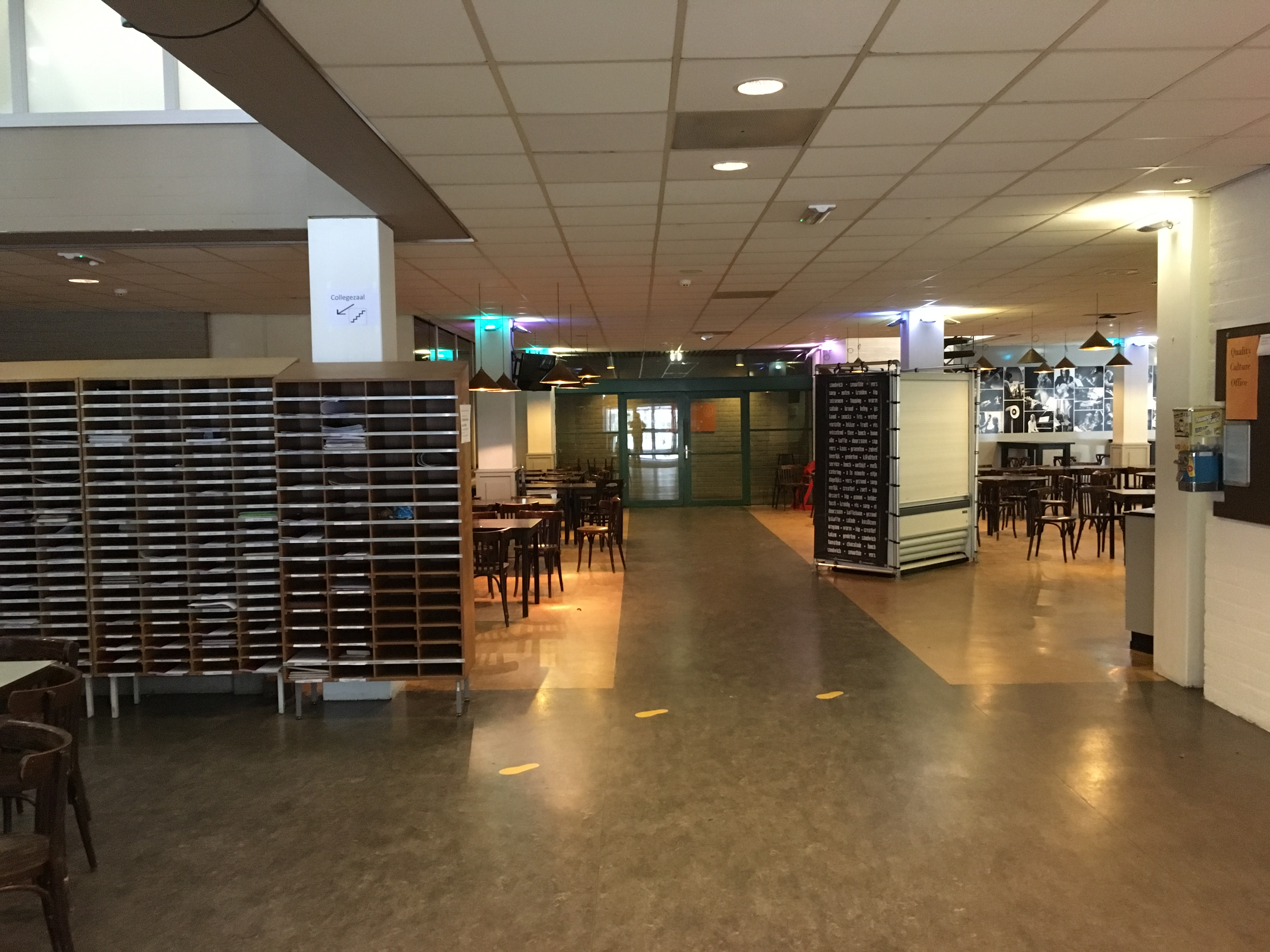 The building of the Royal Conservatory of The Hague, at Juliana van Stolberglaan 1 in The Hague